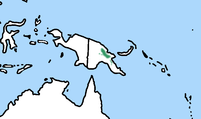 Author is Ulrich Prokop (Scops) Drawn after IUCN factsheet.